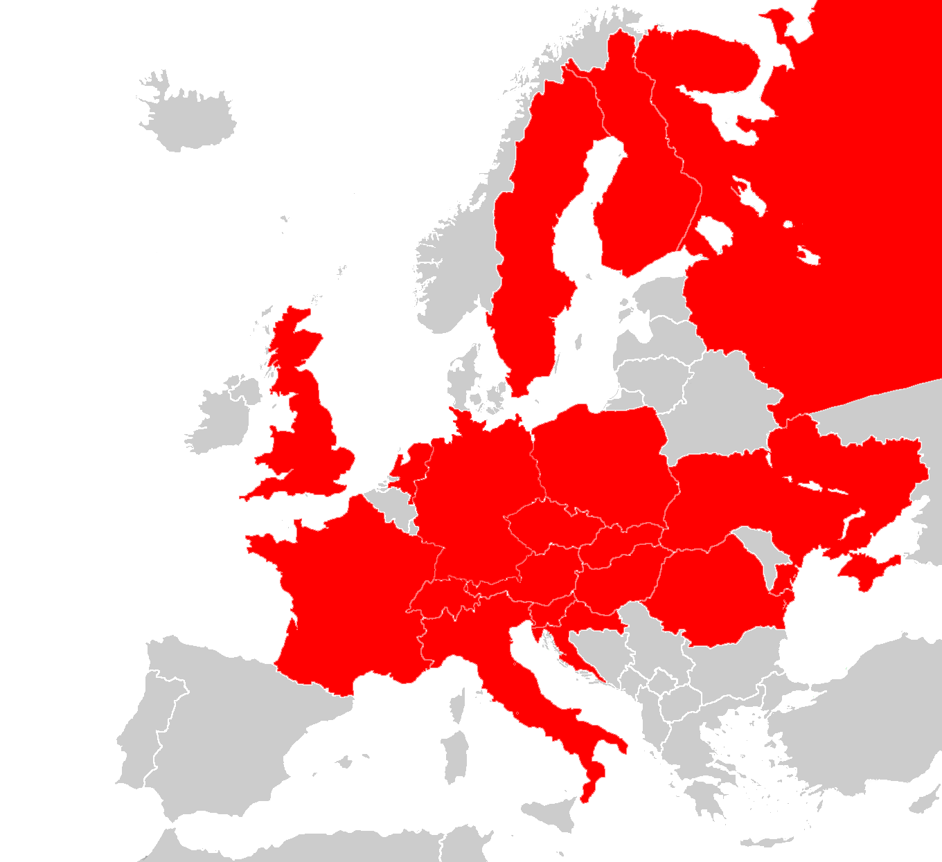 Distribution map of beetle species Ips cemrae